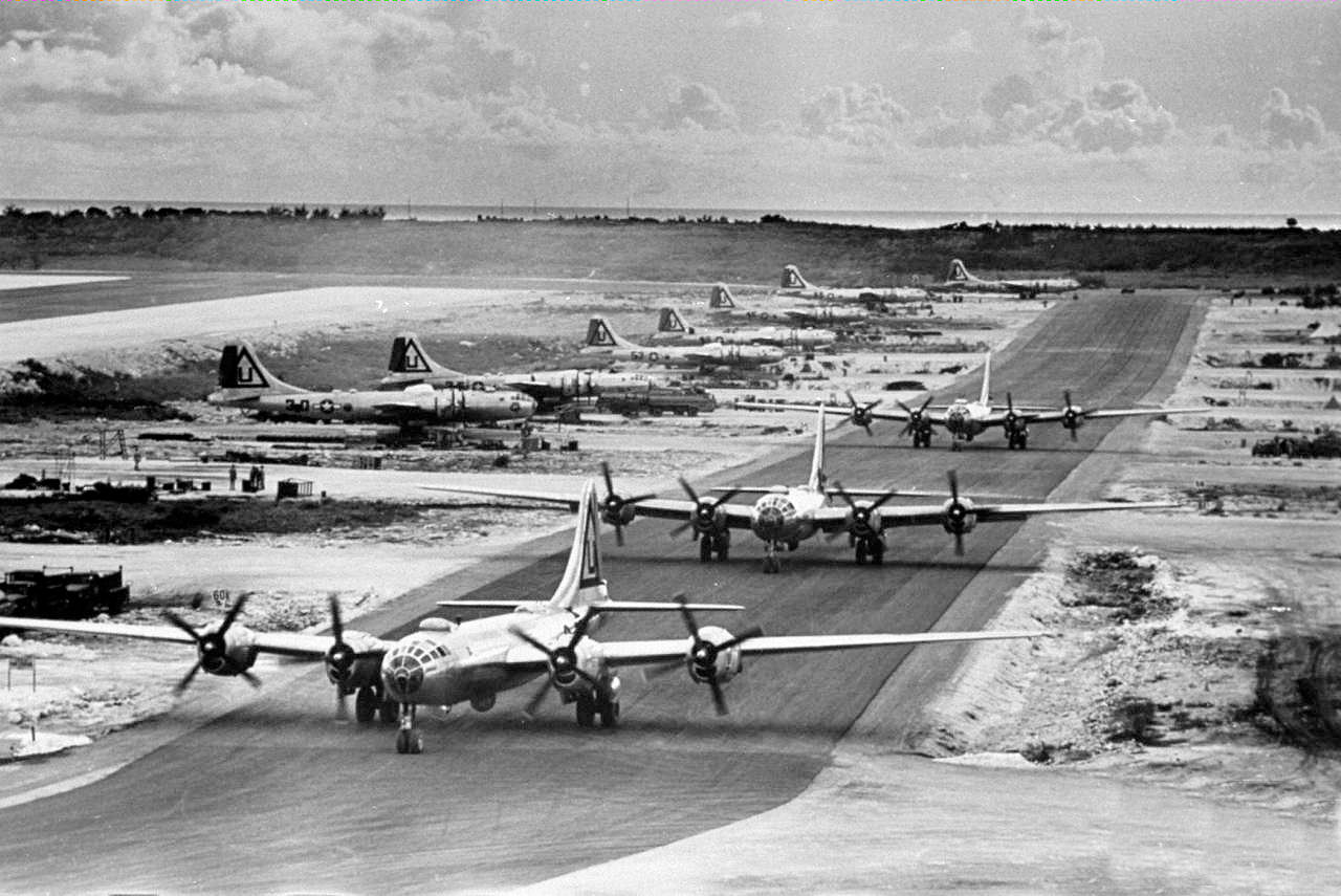 B-29s of the 462d Bomb Group West Field Tinian Mariana Islands 1945 (U.S. Air Force photo)